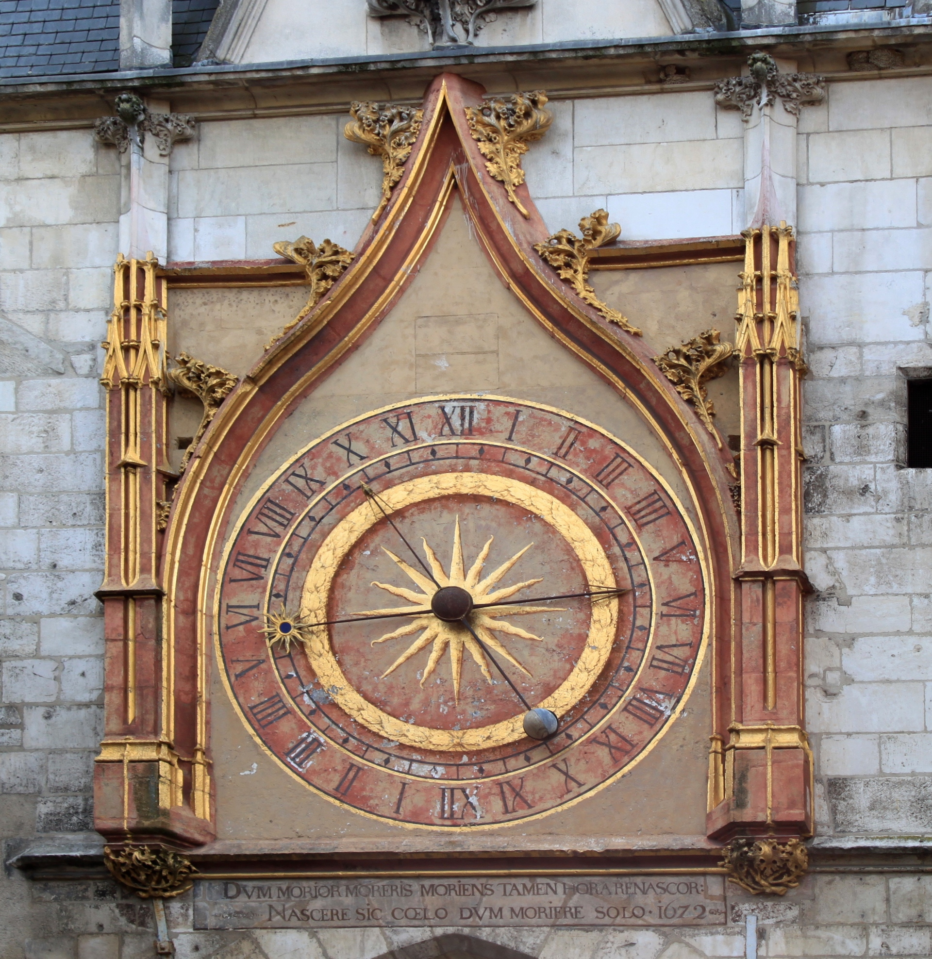 Auxerre, Burgundy, France. Astronomical clock on the "tour de l'Horloge" or Clock Tower, north-east side turned towards the town hall and the rue de la Fécauderie. This clock gives solar time and moon phases.